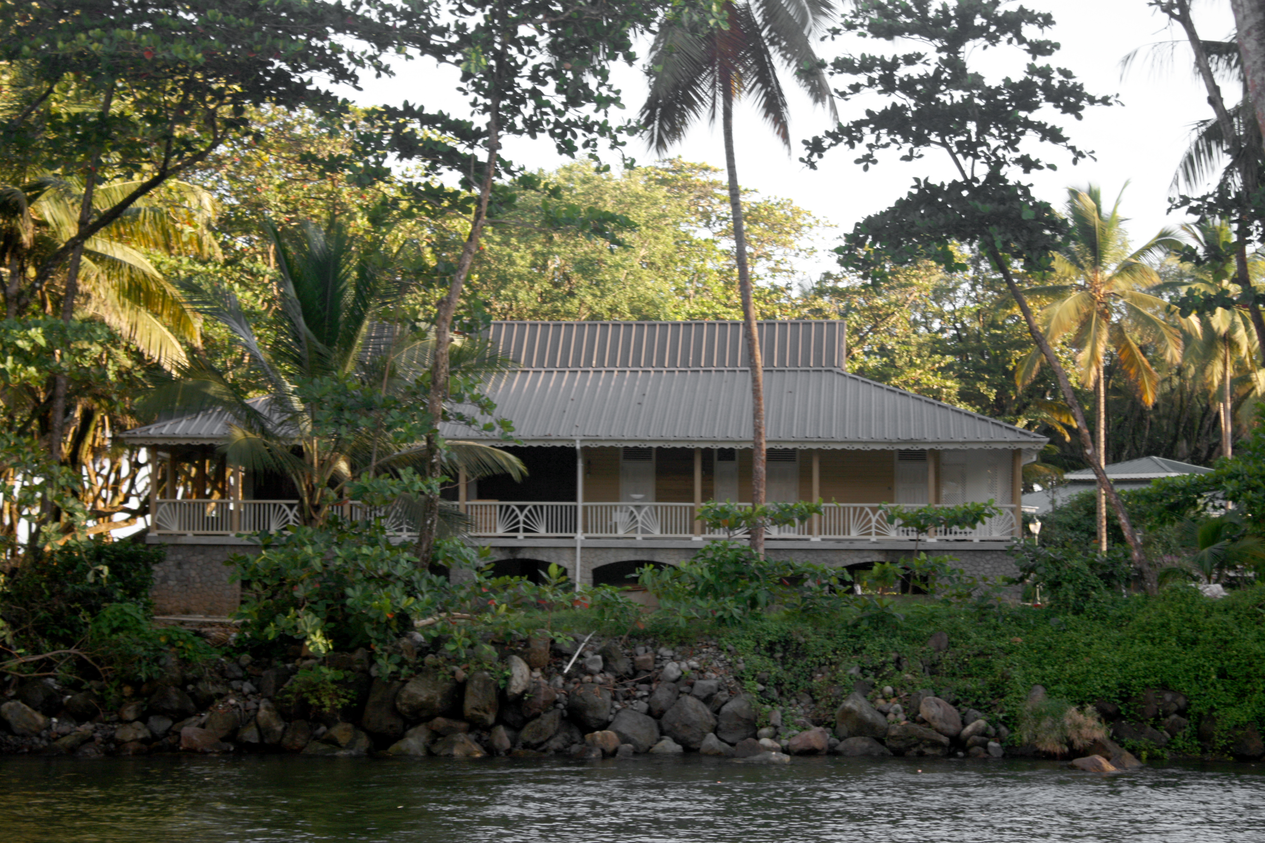 Building in Rosalie, Dominica, on the Rosalie River near its outlet.